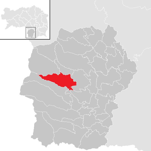 District Deutschlandsberg, Styria, Austria